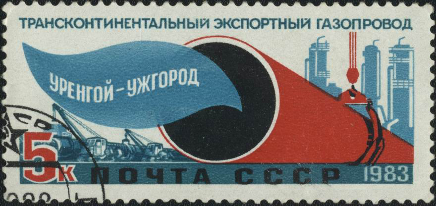 A USSR stamp, 1983. Gas main Urengoy–Uzhhorod.